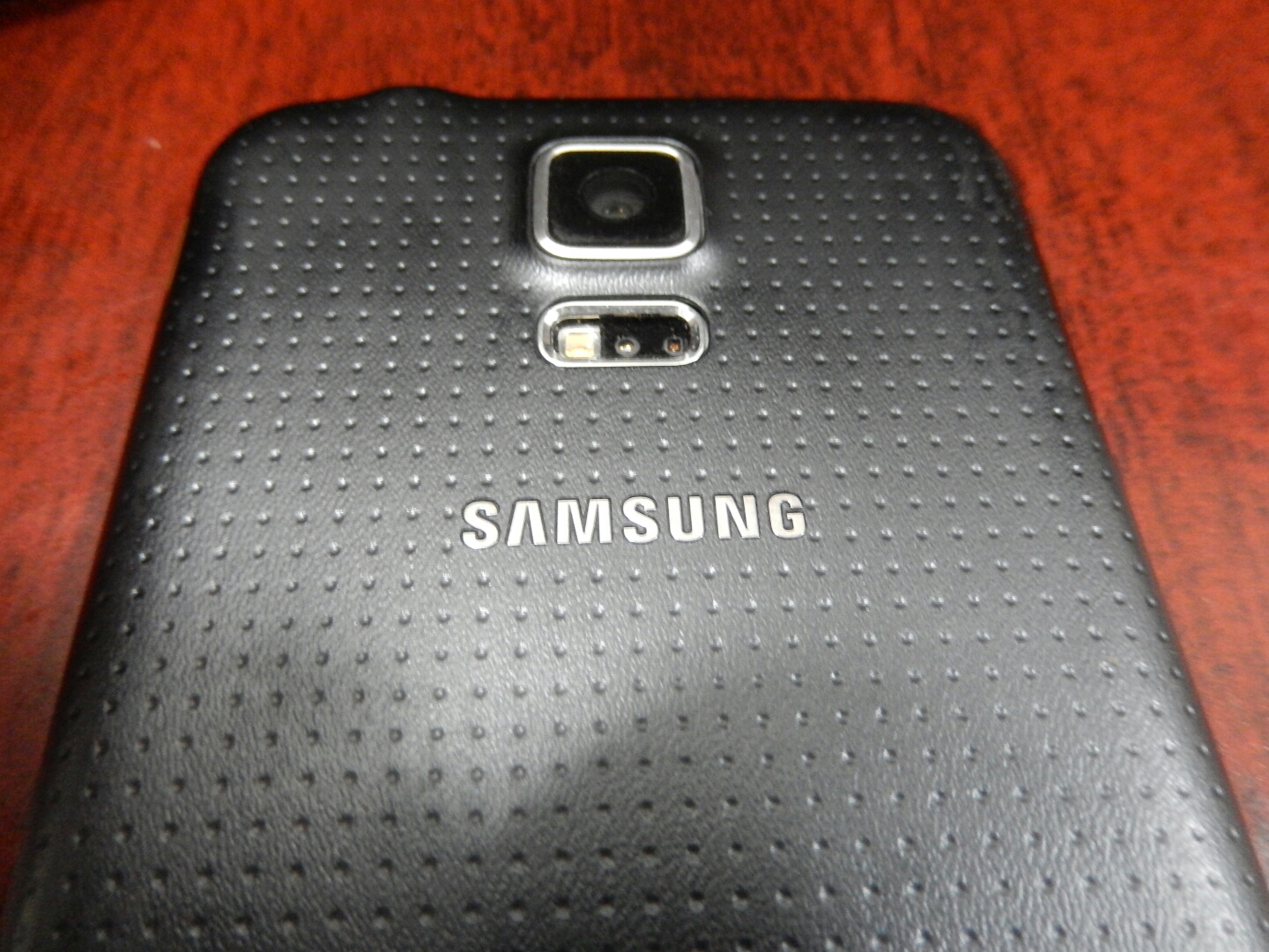 Galaxy S5